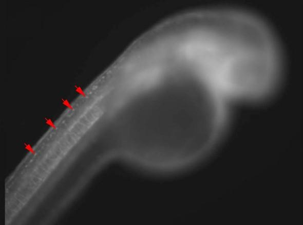 Image of the transgenic zebrafish embryo (strain: Tg(actin:egfp)zp1) 48 hours post fertilization. 4 Rohon-Beard neurons are indicated by red arrows.